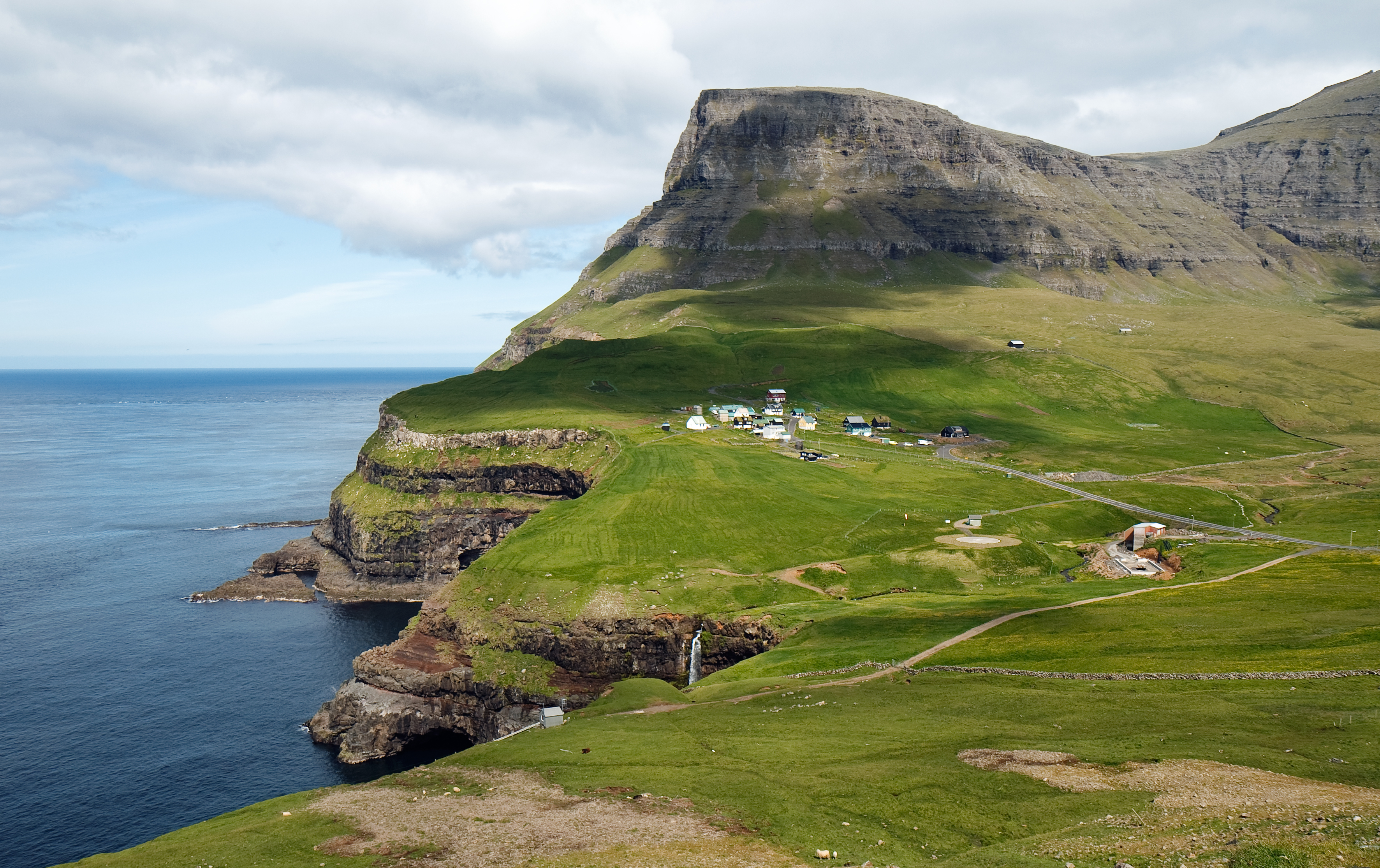 The village of Gásadalur on Vágar, one of the Faroe Islands.